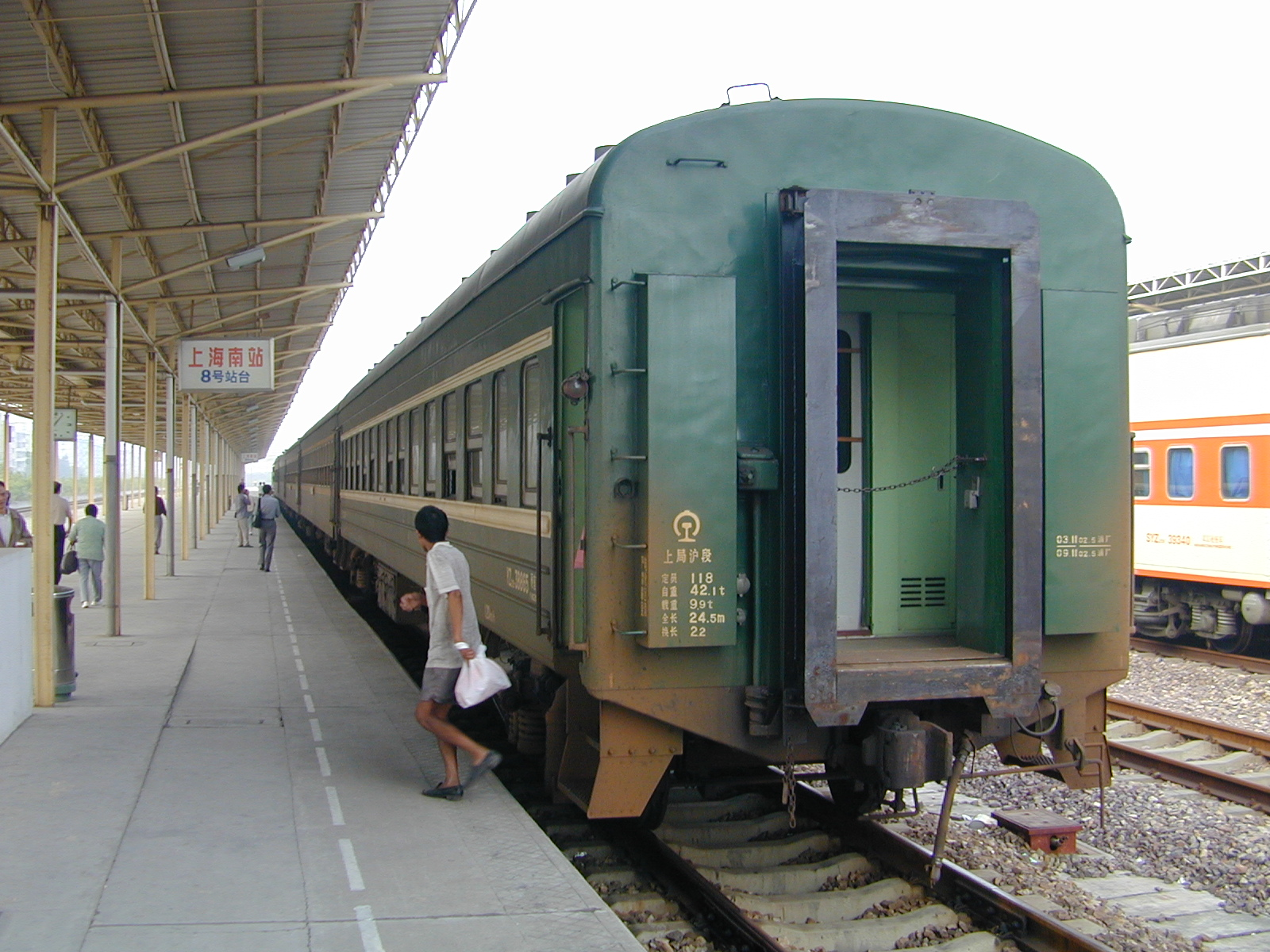 Platform 8 of old Shanghai South Railway Station